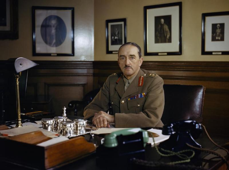 General Sir Alan Brooke, Chief of General Staff, at his desk in the War Office in London.